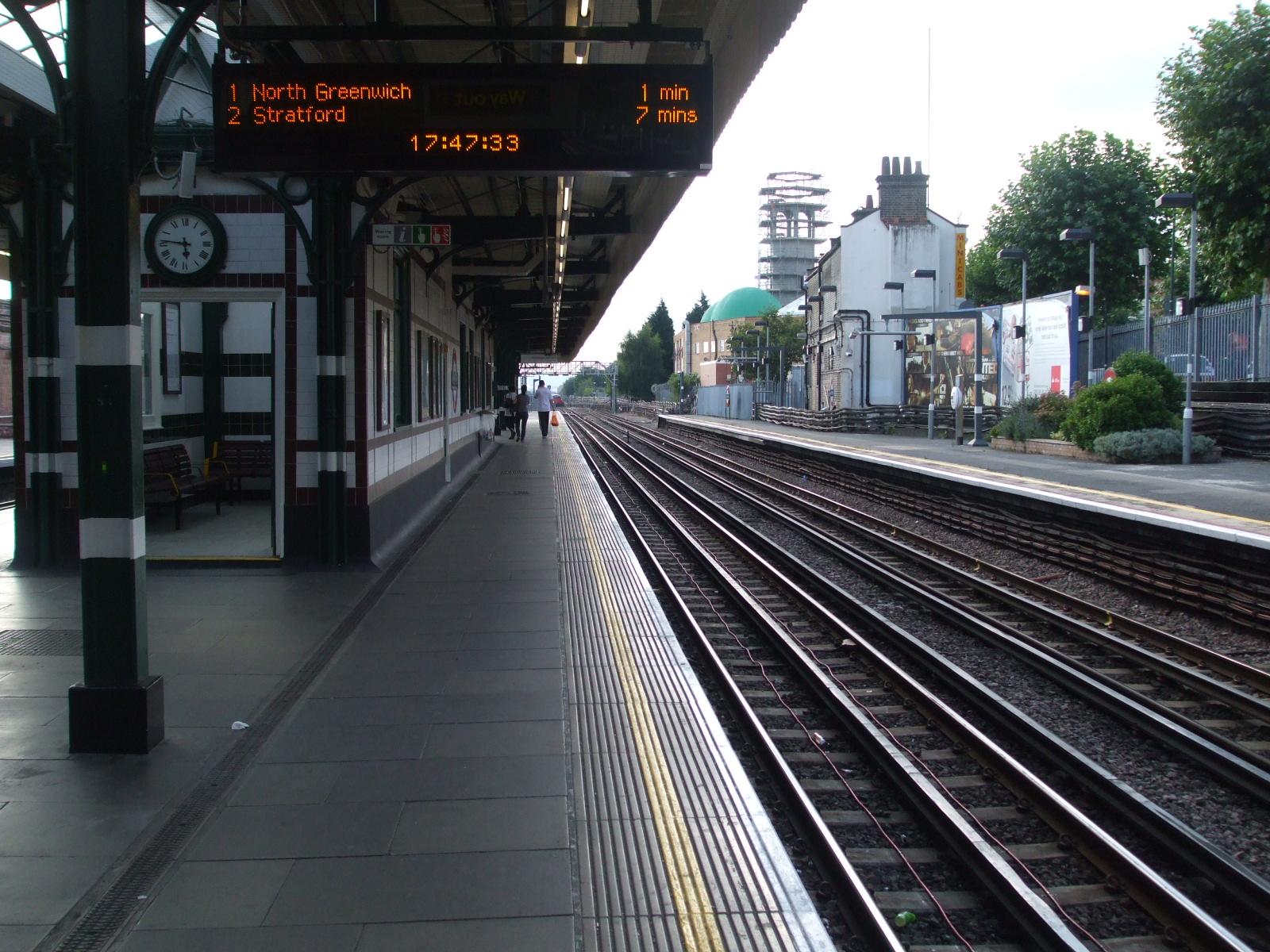 Willesden Green tube station southbound Jubilee line platform looking south. Note platform for southbound Metropolitan line which is not scheduled to call at the station.